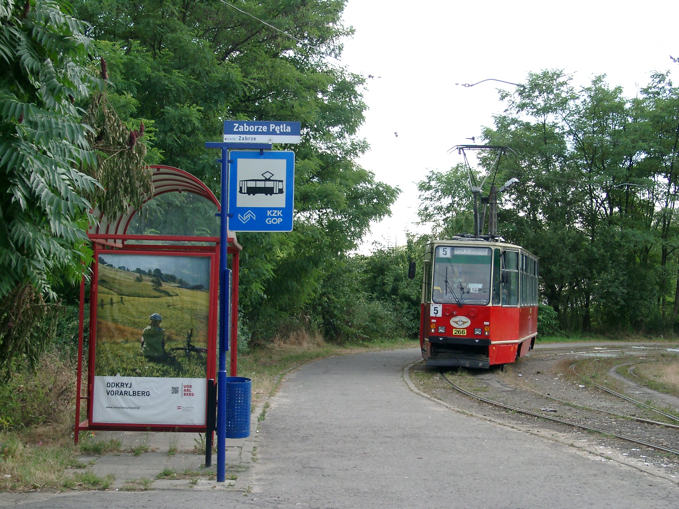 Tram Stop KZK GOP